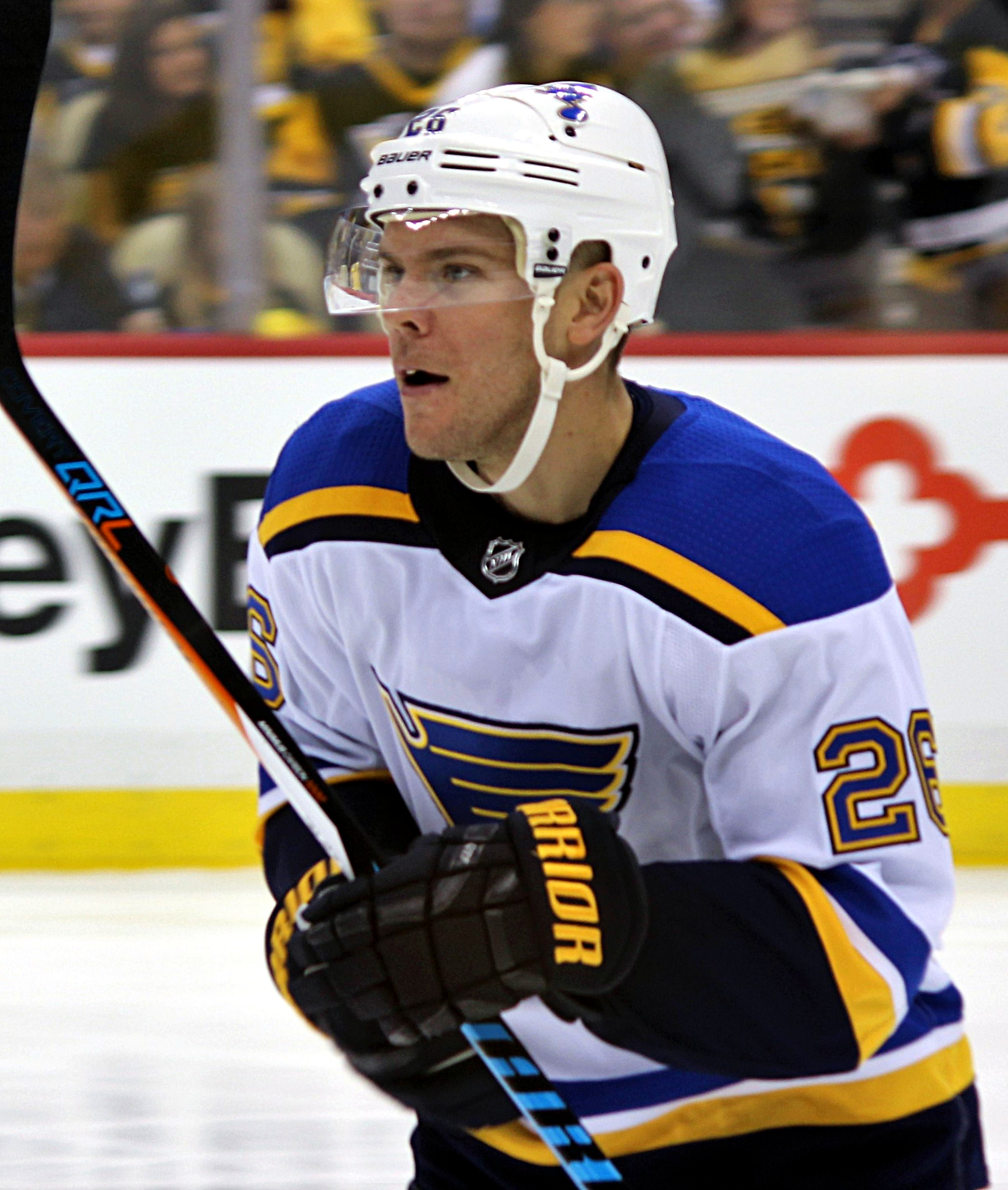 St. Louis Blues forward Paul Stastny during a game against the Pittsburgh Penguins, October 4, 2017, at PPG Paints Arena in Pittsburgh, PA.